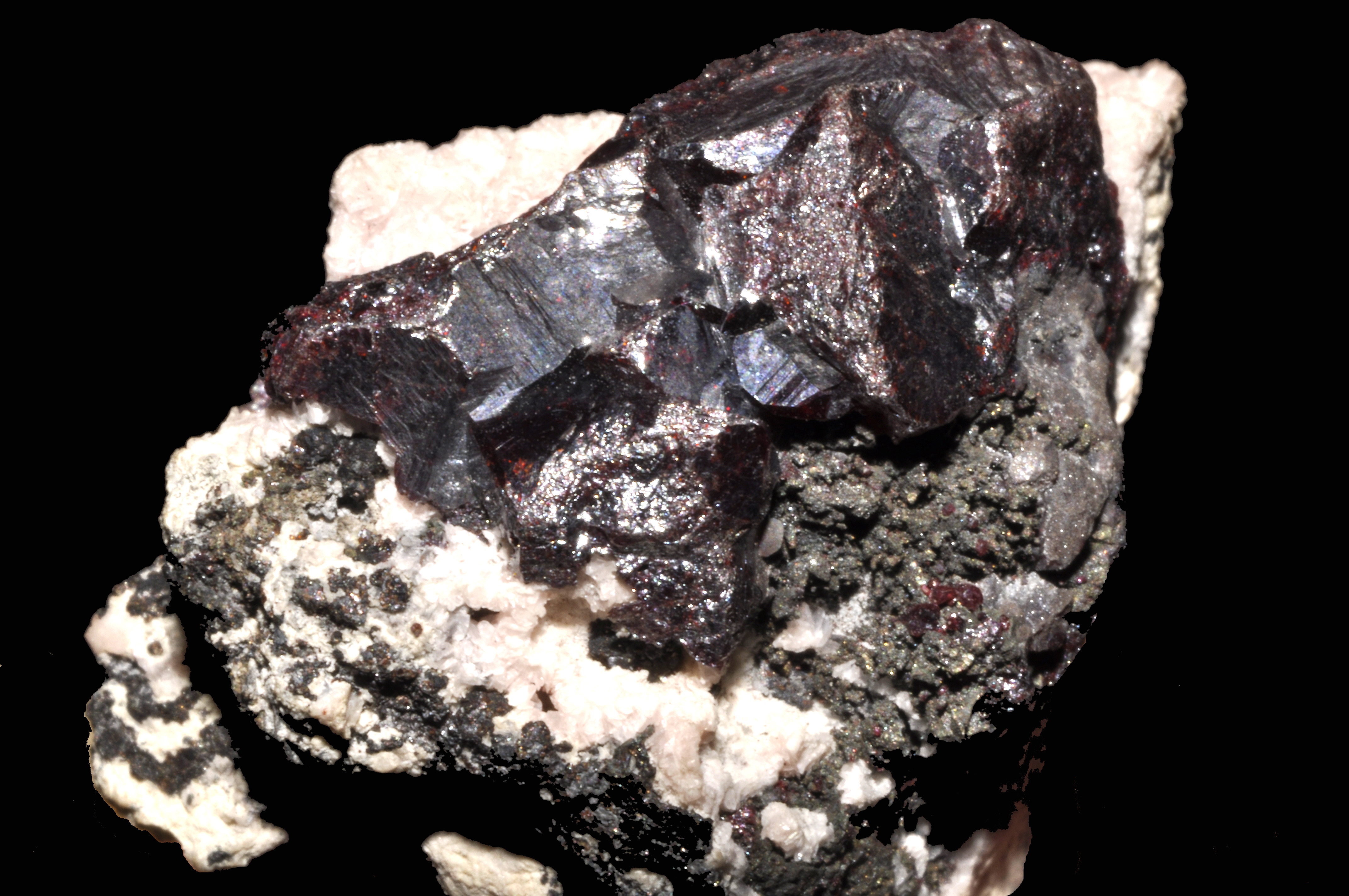 Crystal of proustite